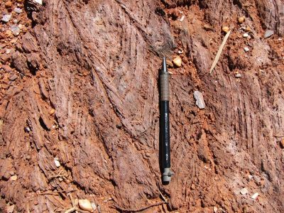 Example of a large-scale crenulation forming kink-folds, Nathans Mine, Glengarry Basin, W.A., an example of chevron-type flexural-slip folds. Photo taken by Rolinator; source self; copyright Roland Gotthard 2004, free use; used example of crenulation